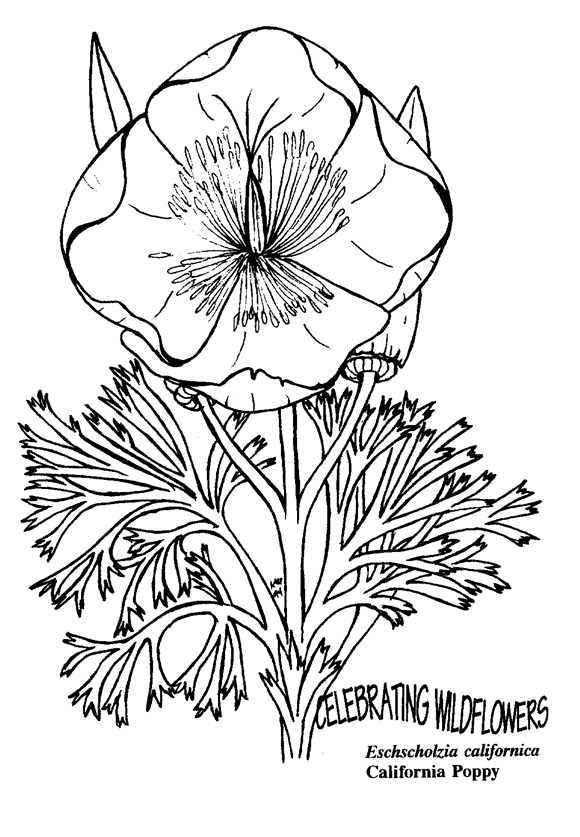 Eschscholzia californica, California Poppy, image from public domain coloring book note to editors: IF YOU CHOOSE TO REMOVE THE TEXT, TO IMPROVE THE IMAGE AS AN ILLUSTRATION, PLEASE REUPLOAD AS A SEPARATELY NAMED FILE. THIS IMAGE IS ALSO USED TO ILLUSTRATE ARTICLES ON COLORING BOOKS.